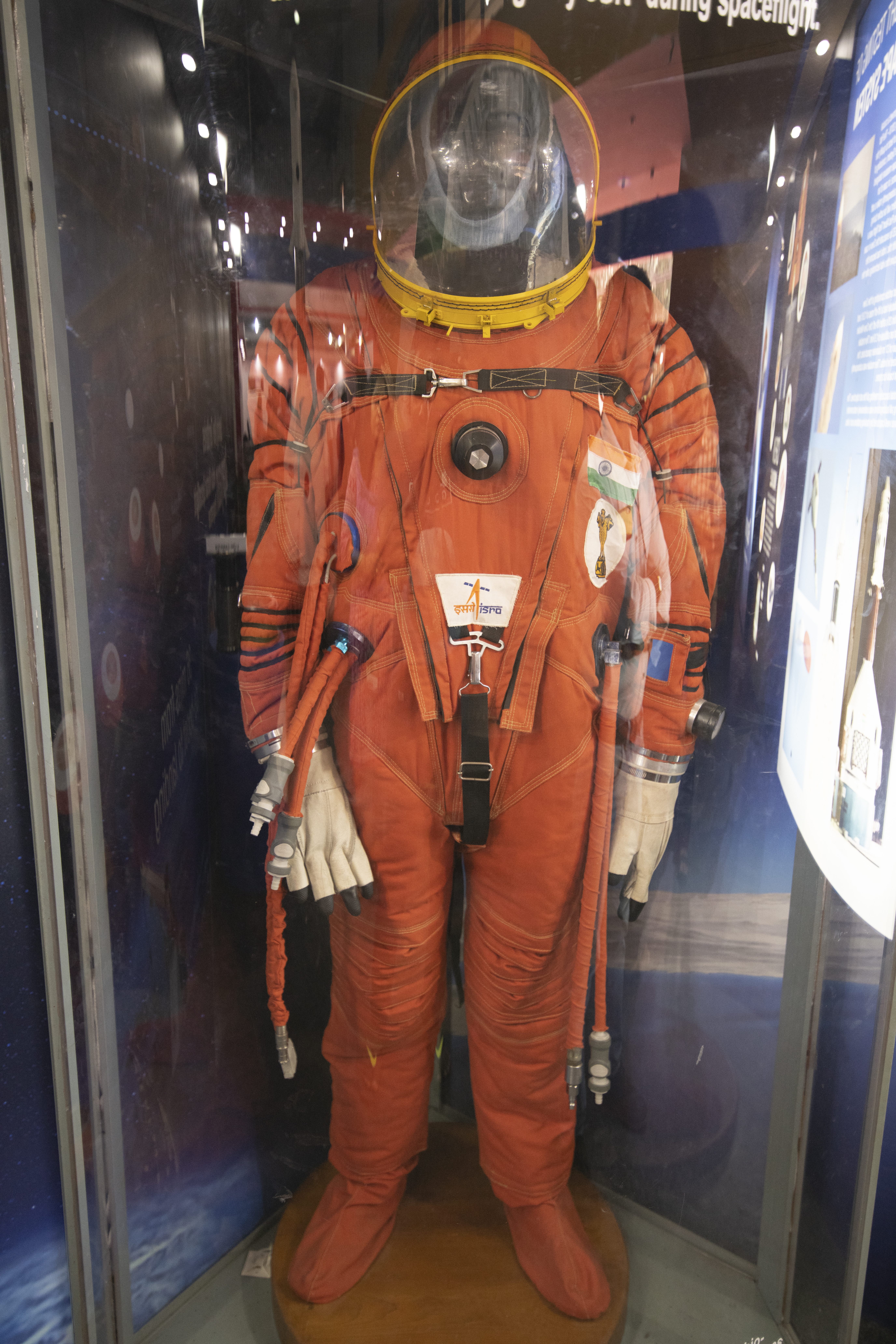 Flight-suit prototype for ISRO's human spaceflight displayed at 6th Bangalore Space Expo 2018, 6-8 September 2018